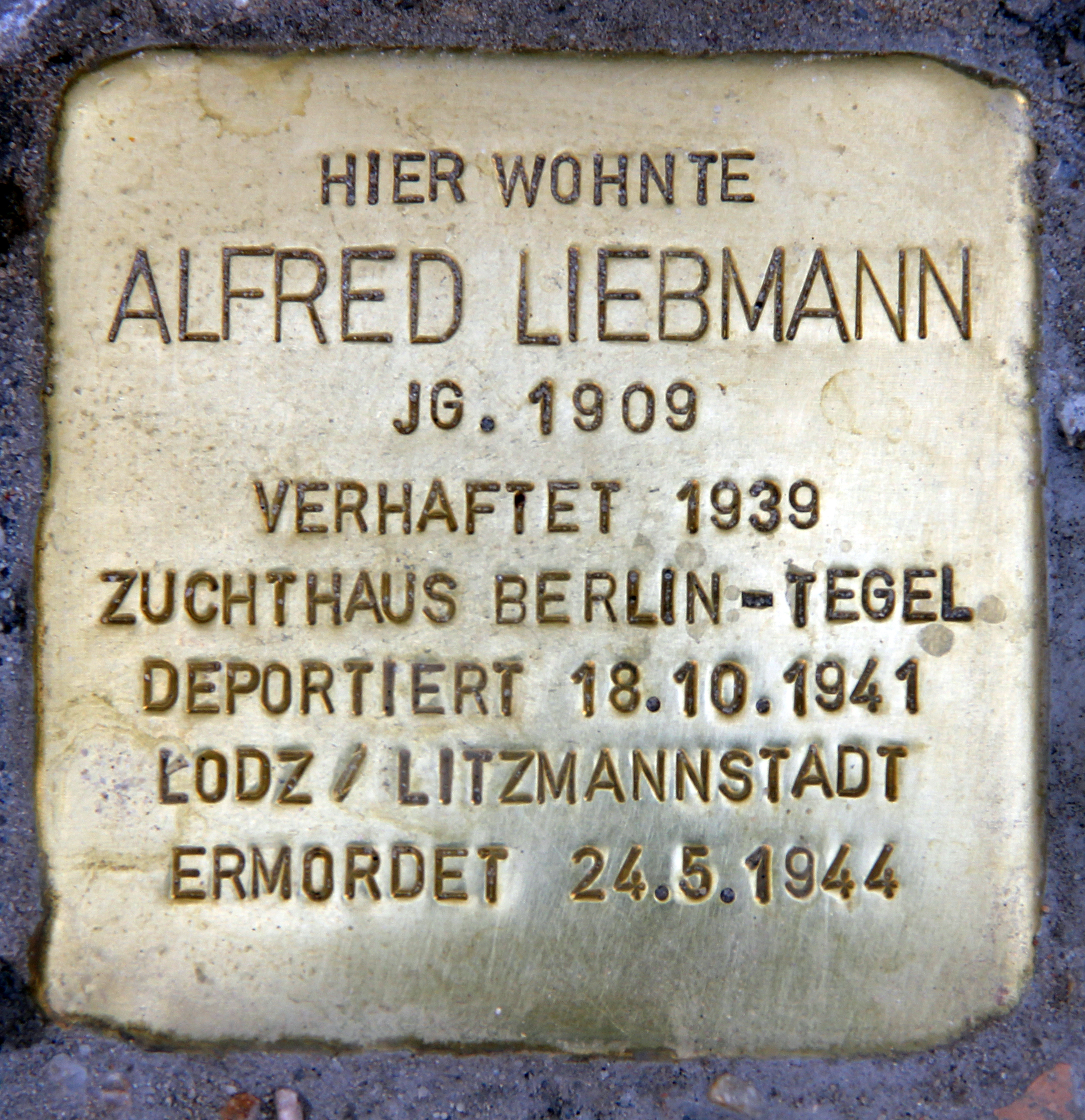 "Stolperstein" (stumbling block), Alfred Liebmann, Sybelstraße 35, Berlin-Charlottenburg, Germany